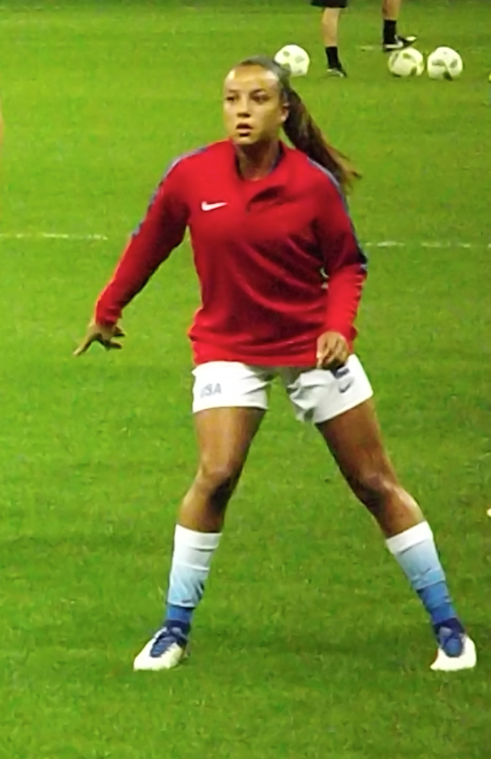 Uswnt warming up before their first game during the Rio 2016 Olympics, against New Zealand.